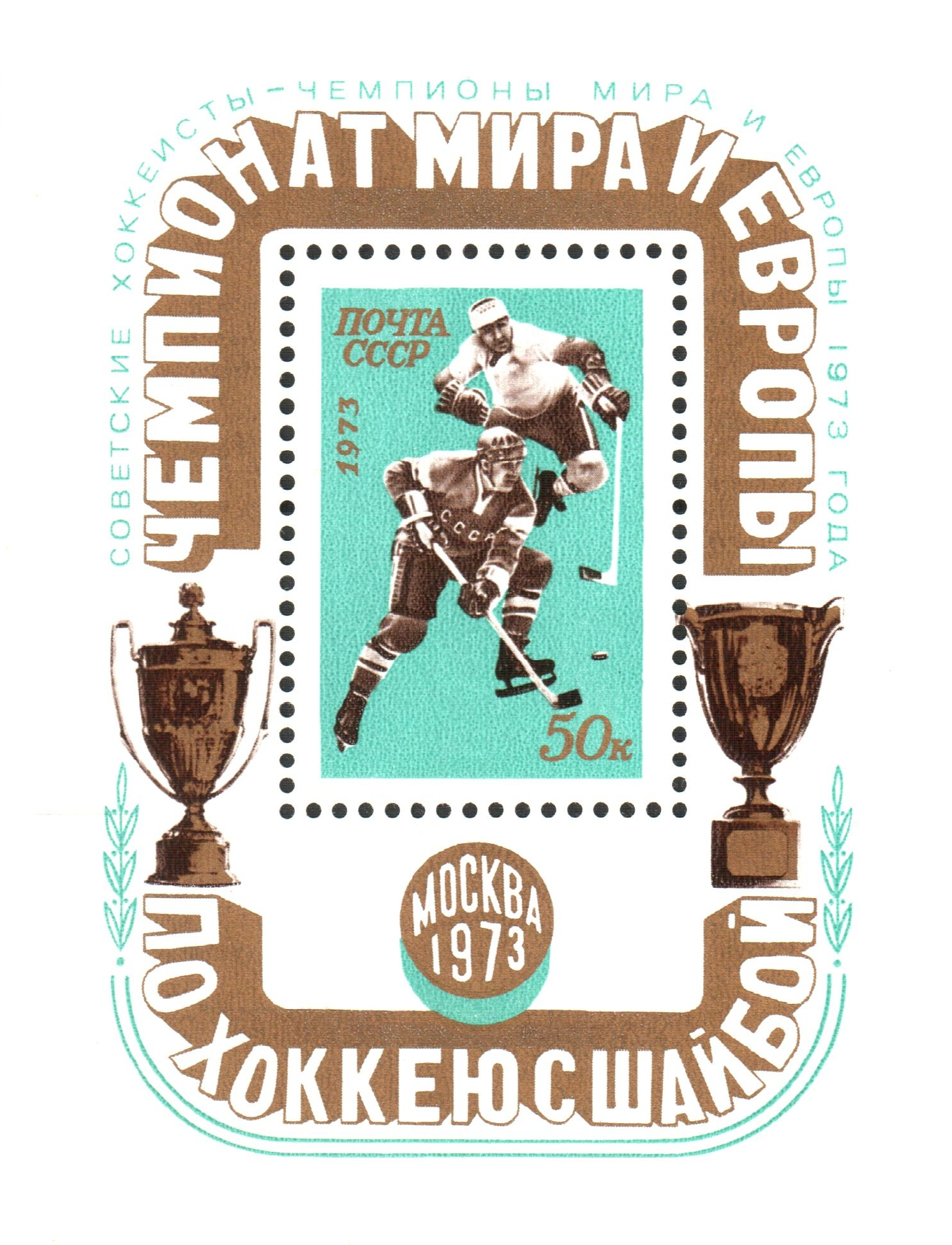 USSR sheet of 1